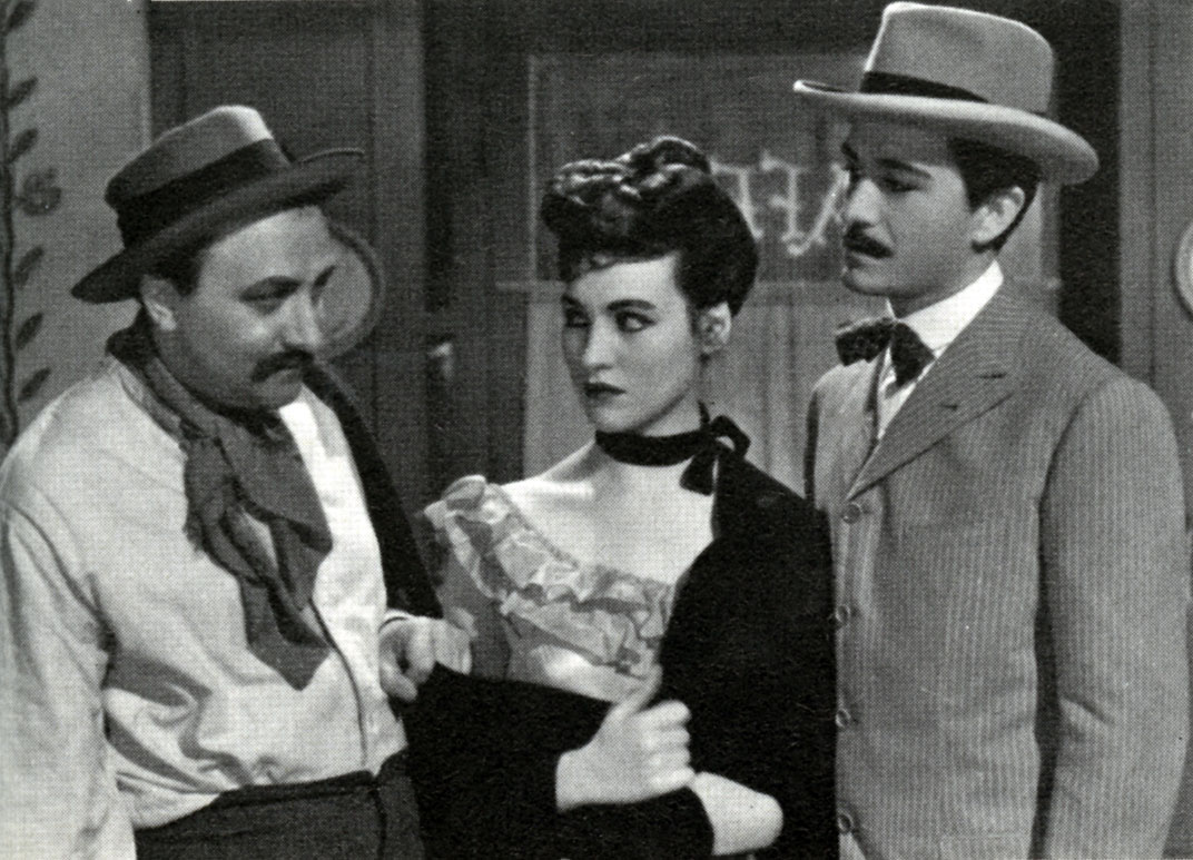 screenshot from the film Il voto (1950)